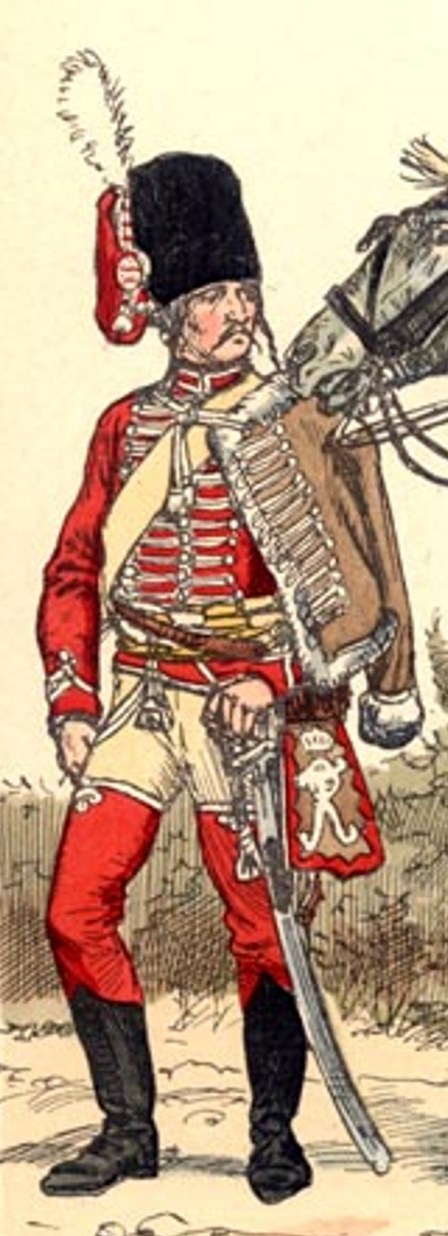 Hussar of Prince Henry of Prussia's (1726-1802) personal guard troop in 1778